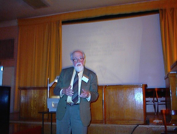 Professor Gerard Laman is giving a lecture at the Sobolev Institute of Mathematics in Novosibirsk, Russia during a conference dedicated to the 70th anniversary of professor Victor Toponogov held in March 14-16, 2000.